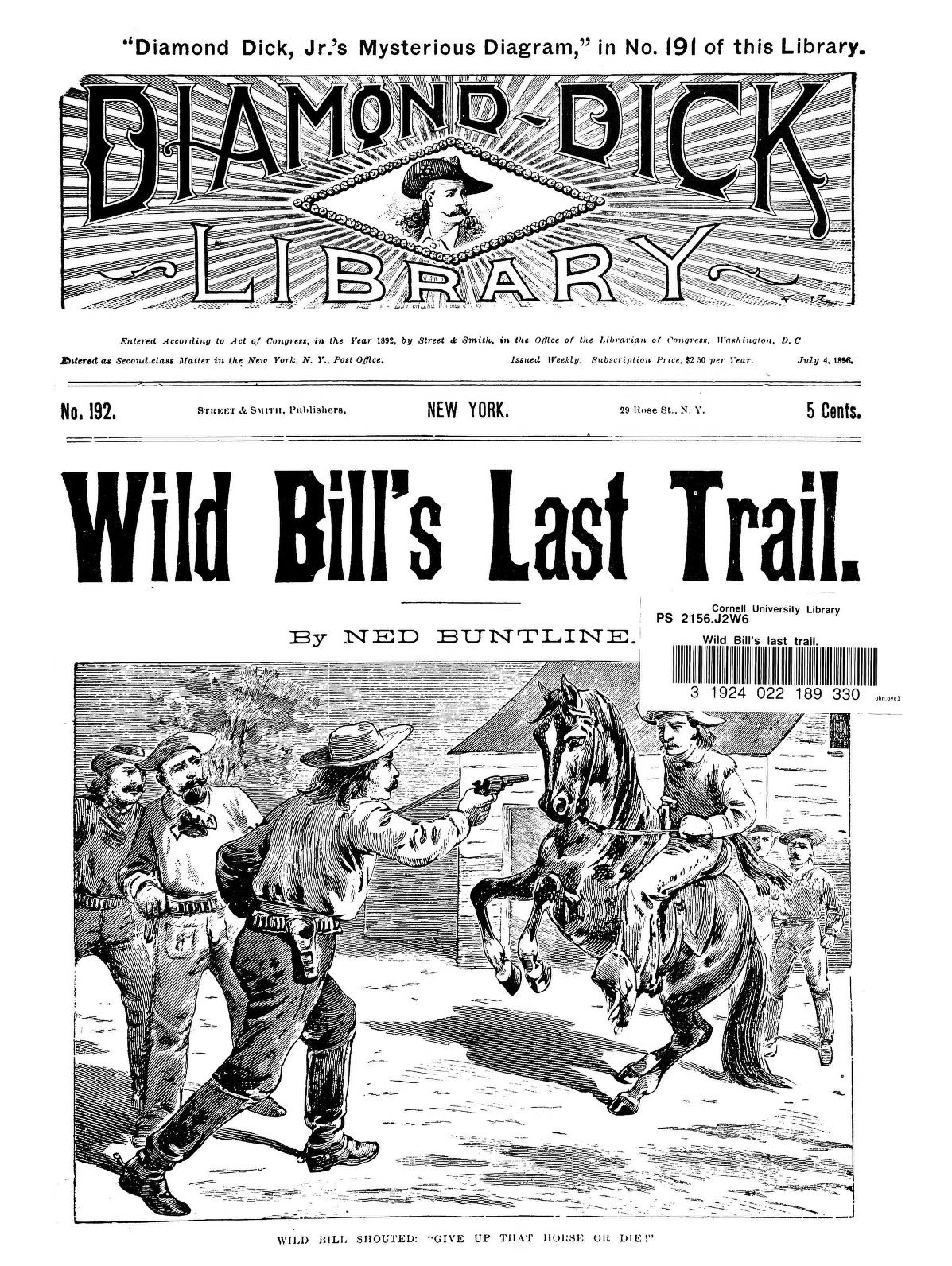 Ned Buntline. Wild Bill's Last Trail. 1880.